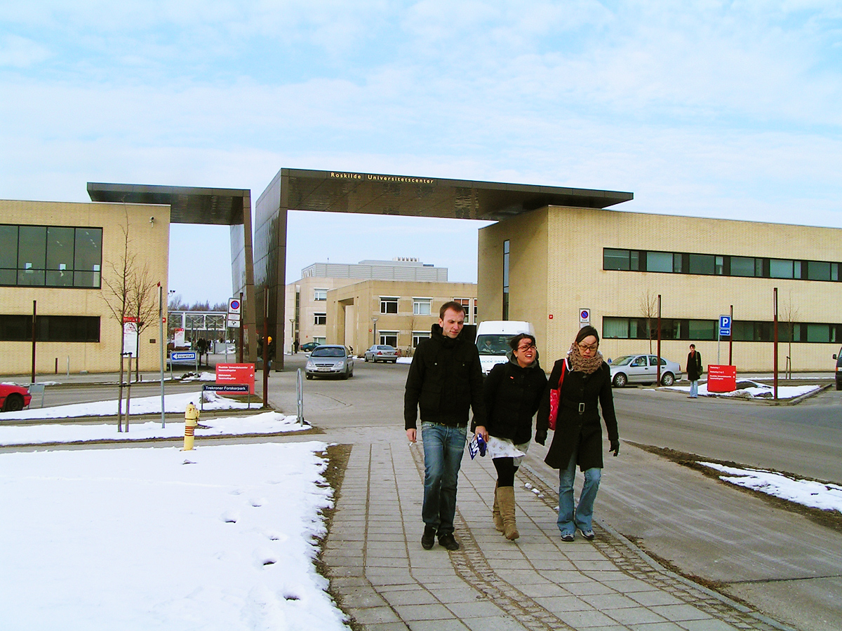 Photo of Roskilde-University